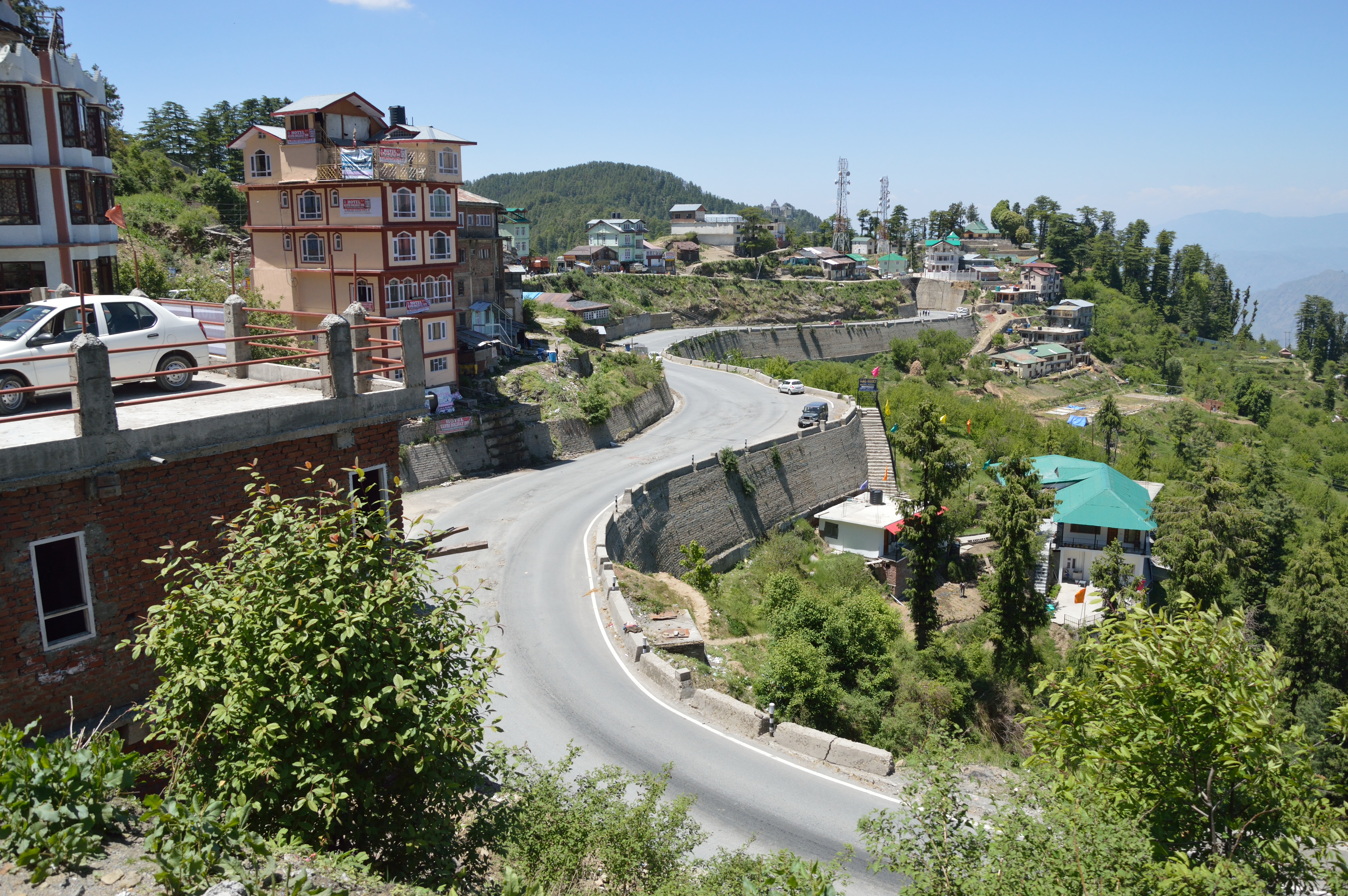 Photographed in Himachal Pradesh, India.